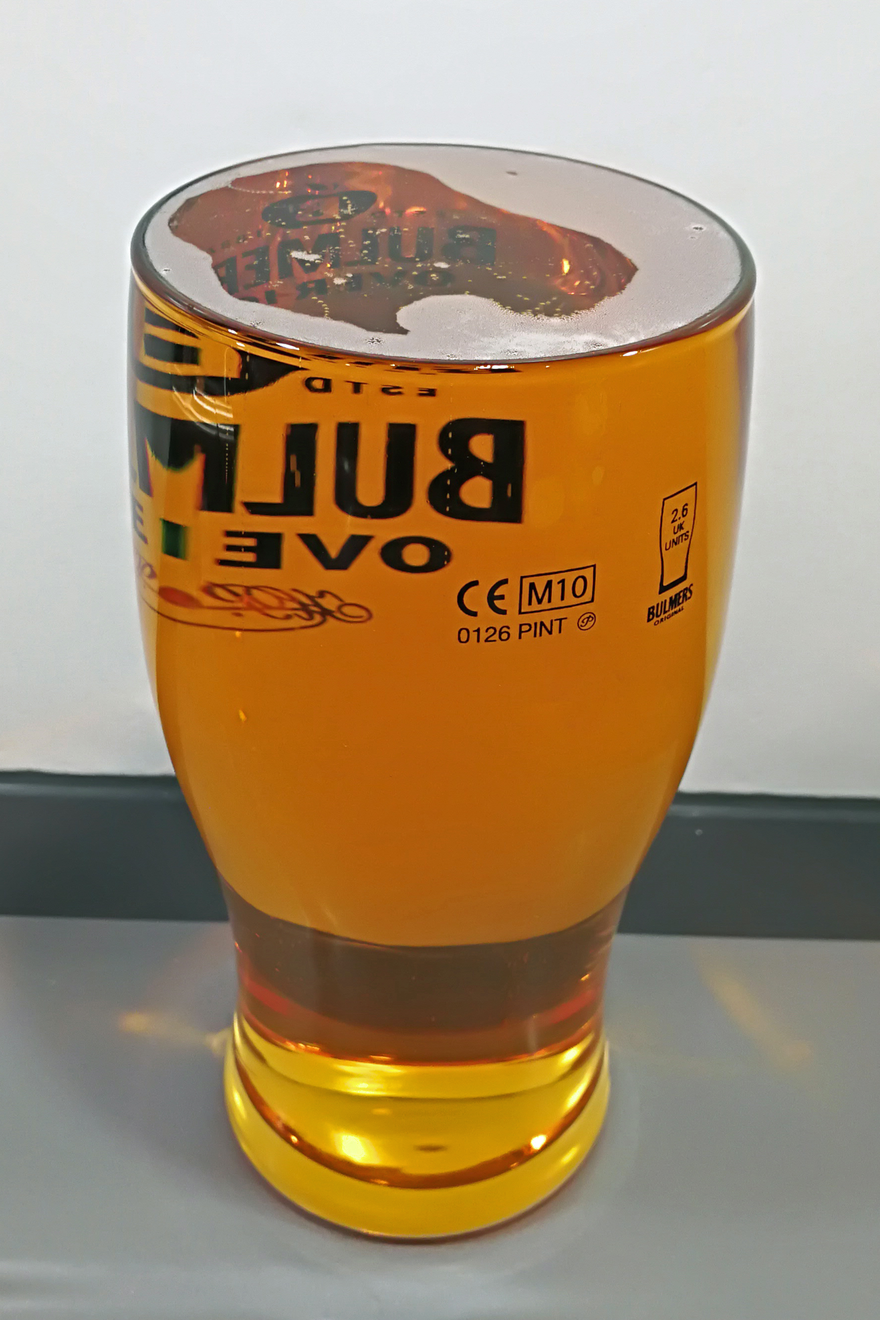 1 pint cider (Bulmers) CE